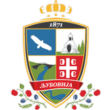 Coat of Arms of the city and municipality of Ljubovija in Serbia